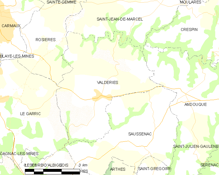 Map of French municipality Valderiès